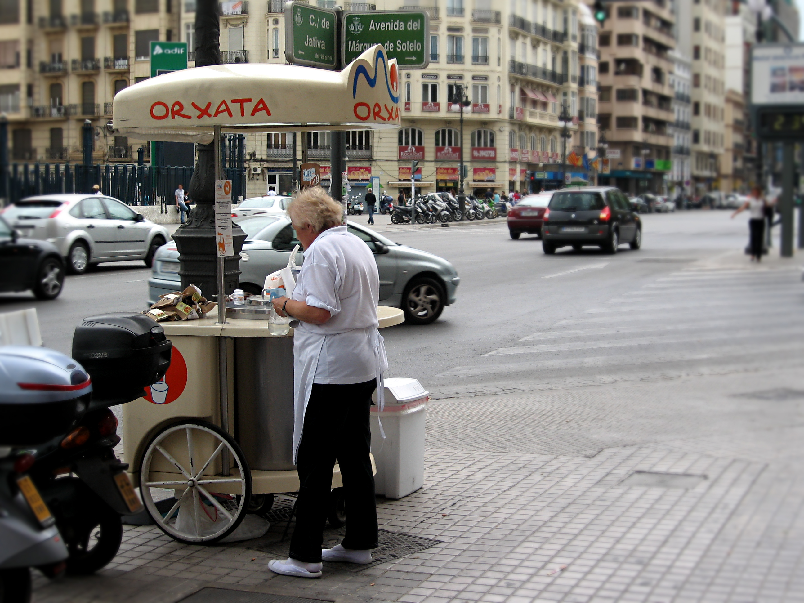 Orxata booth in the streets of Valencia (Spain)